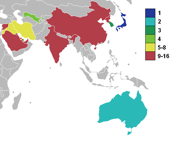 Results of the 2011 AFC Asian Cup. Map was made from various Wikipedia maps.